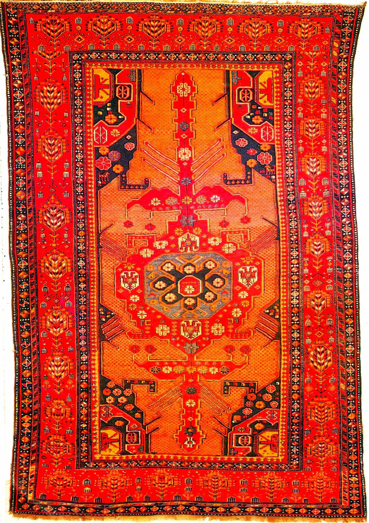 Gimil rug, Guba school, XVIII c.